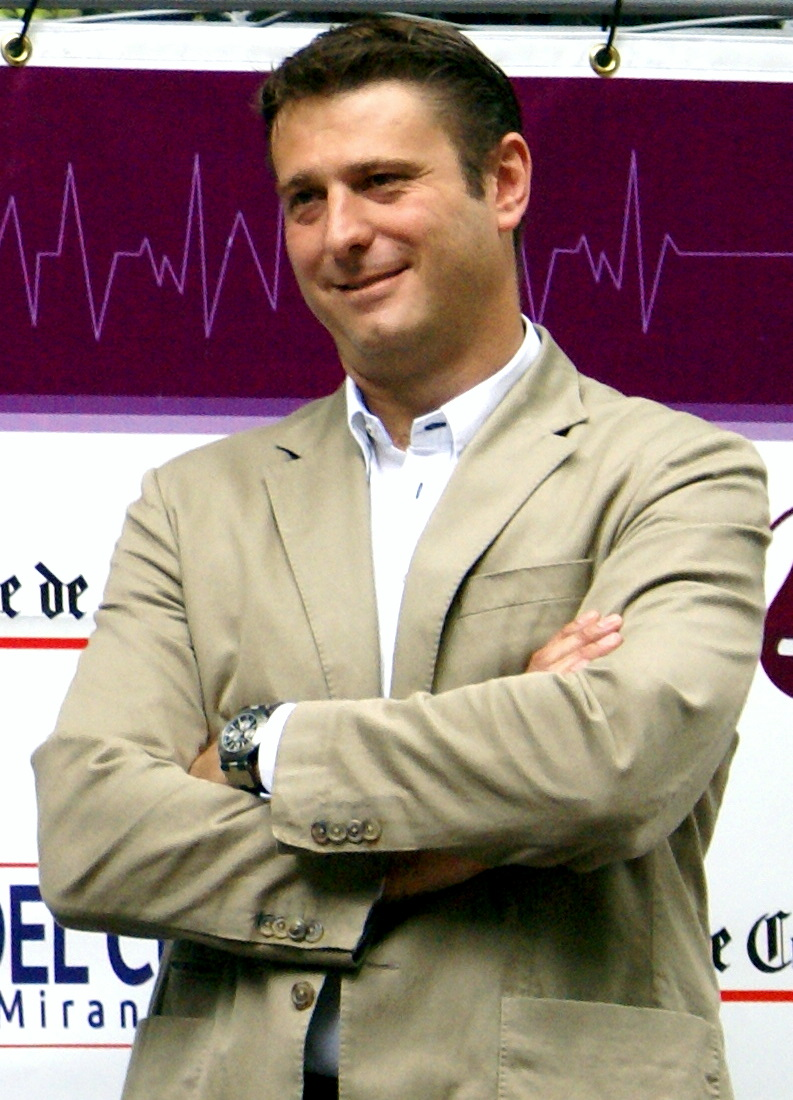 Carlos Suárez Sureda, chairman of Real Valladolid.